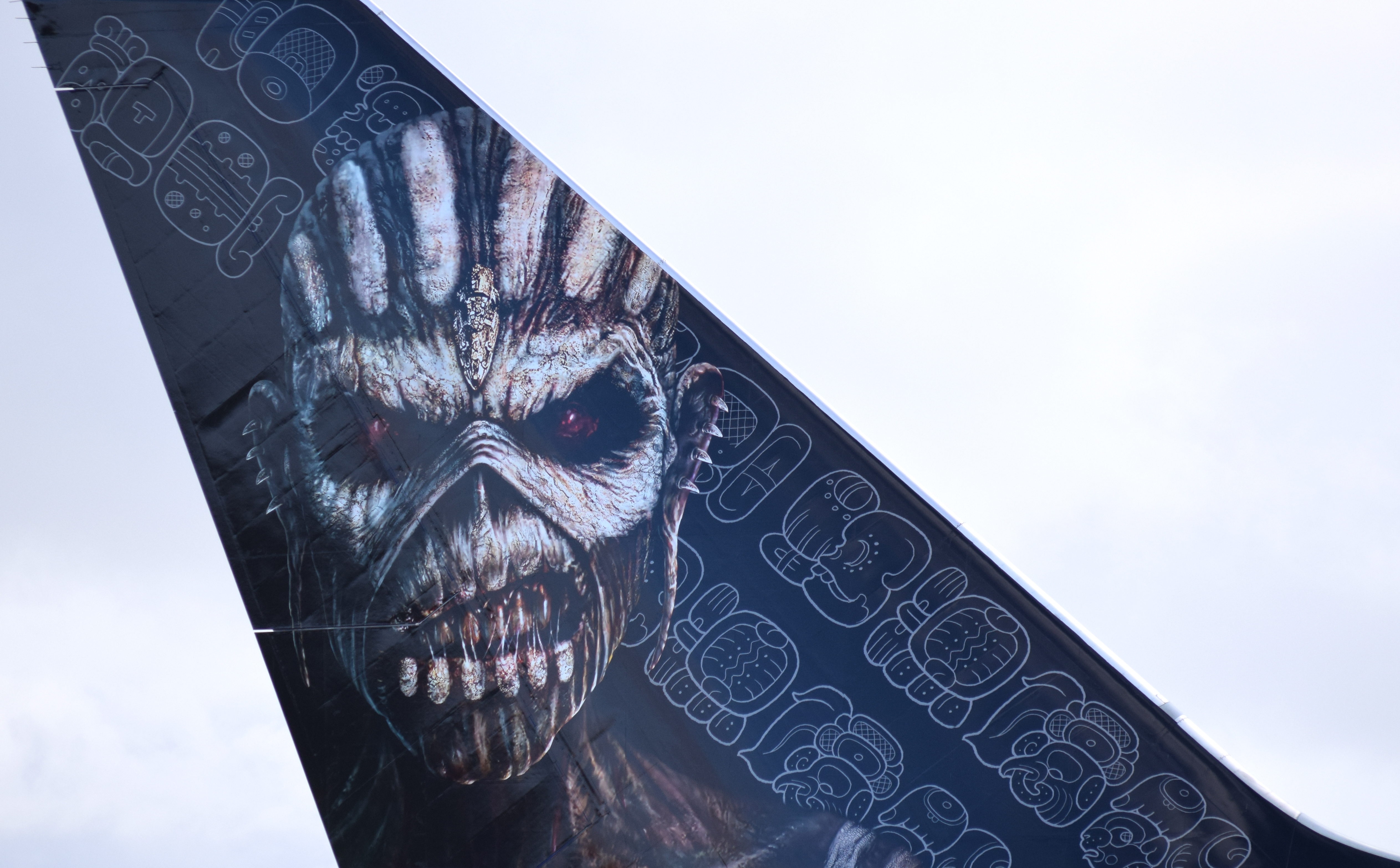 The tailfin artwork of the new Ed Force One, Boeing 747-400 TF-AAK